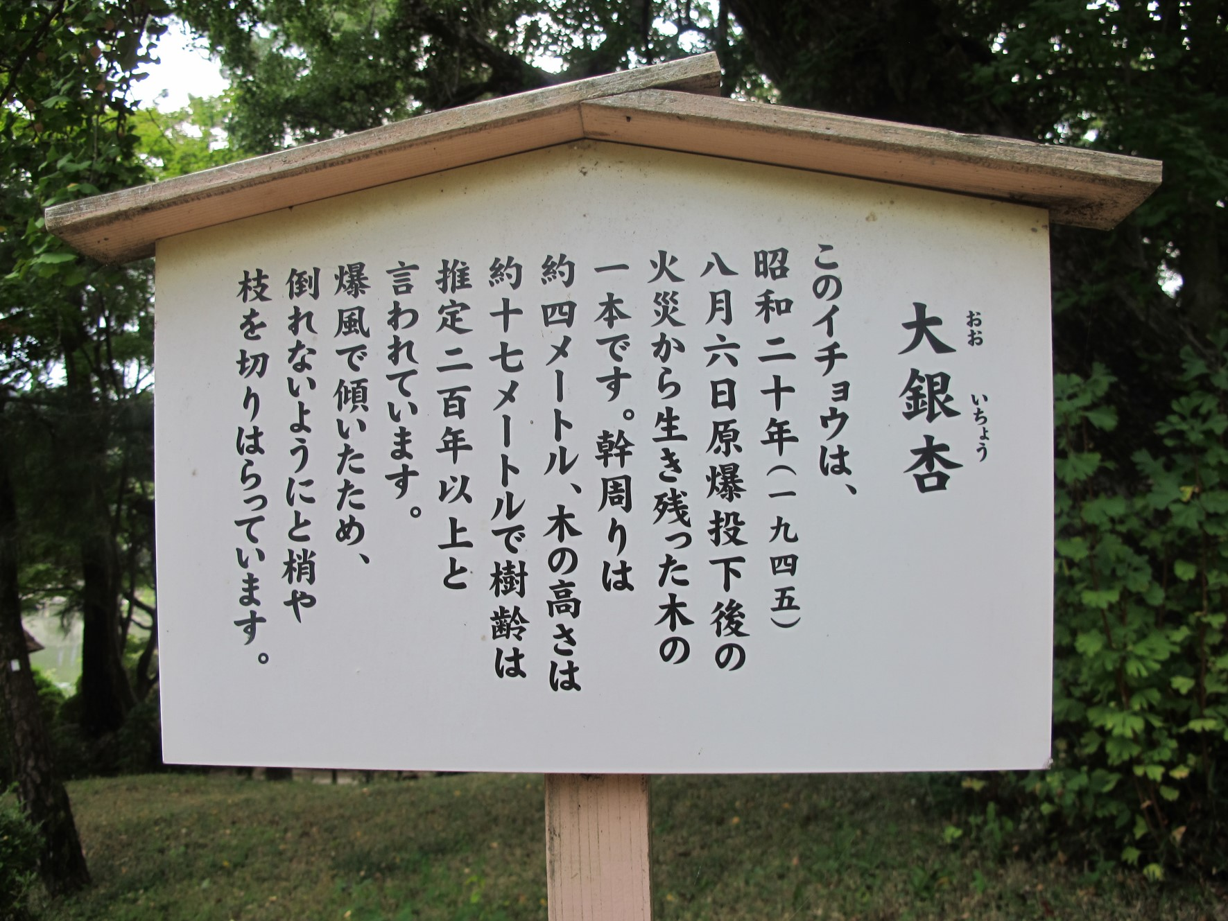 Explanation for: Ginkgo tree wihtin Shukkei Garden, Hiroshima